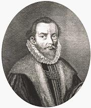 Rudolph, Prince of Anhalt-Zerbst